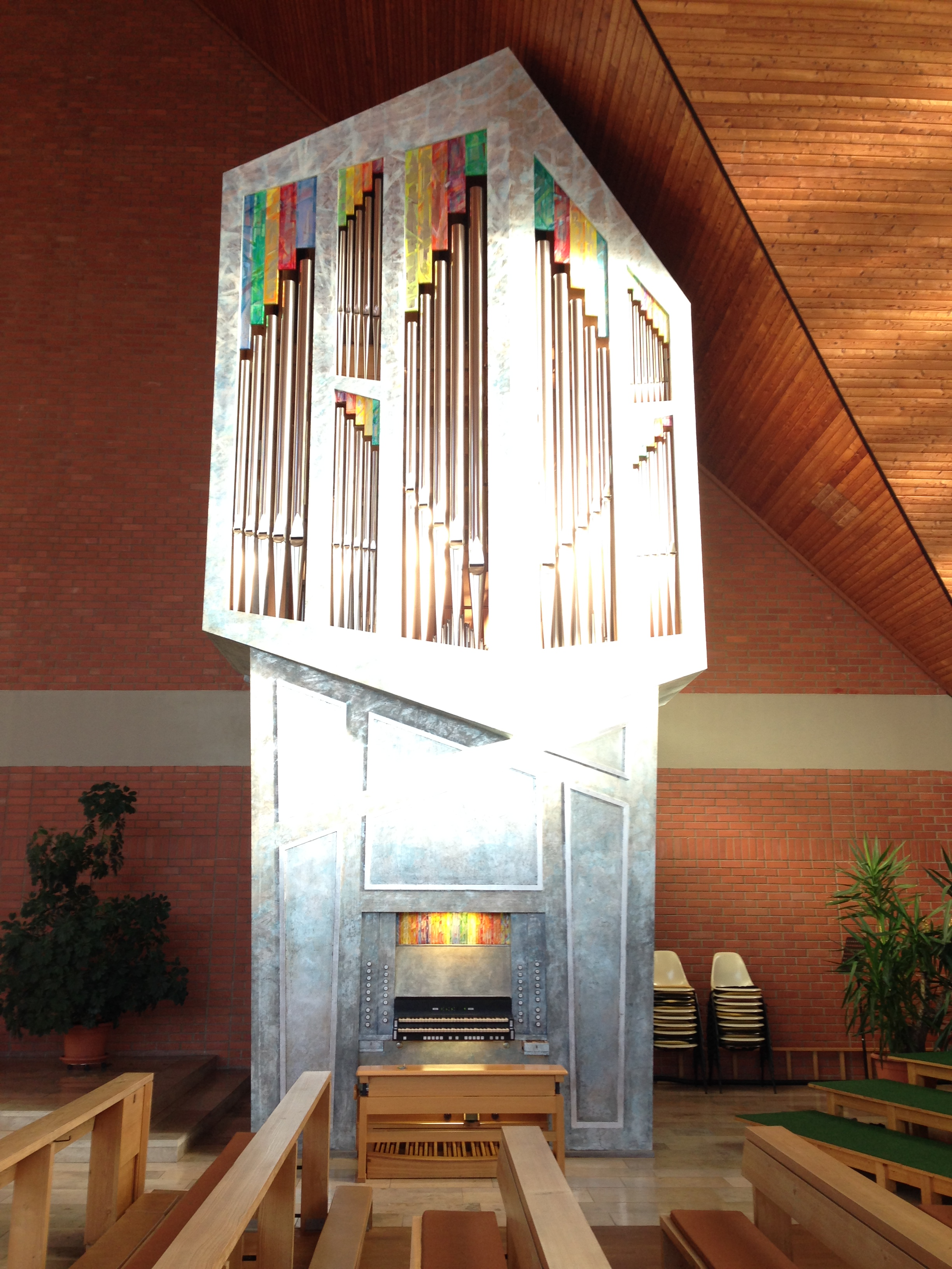 Vleugels Organ of St. Bartholomew's Church in Geigant